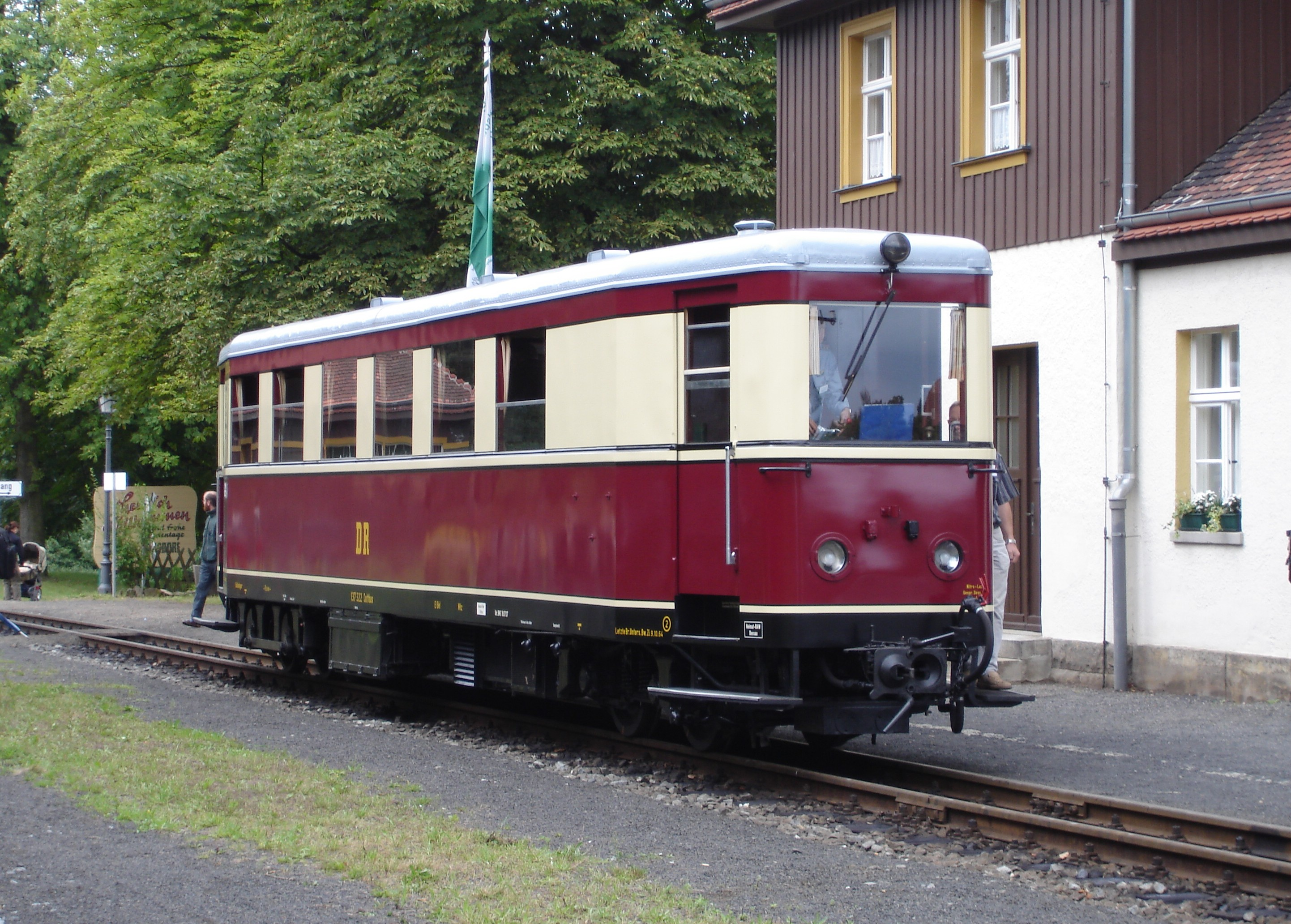 diesel multiple unit VT 137 322 in Kurort Jonsdorf, Germany